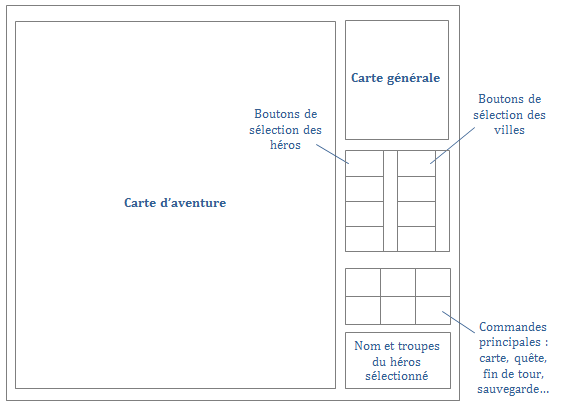 Diagram showing the functionalities of the interface of an hero's screen in the video game Heroes of Might and Magic: A Strategic Quest.